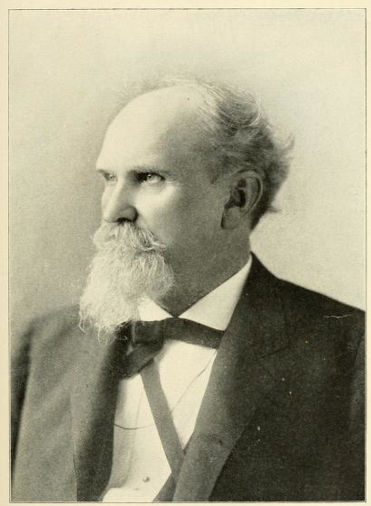 Image of Arkansas Senator James K. Jones